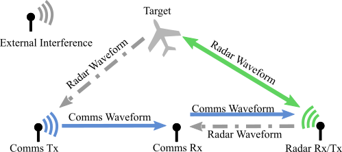 PNG Image fixing text formatting issues